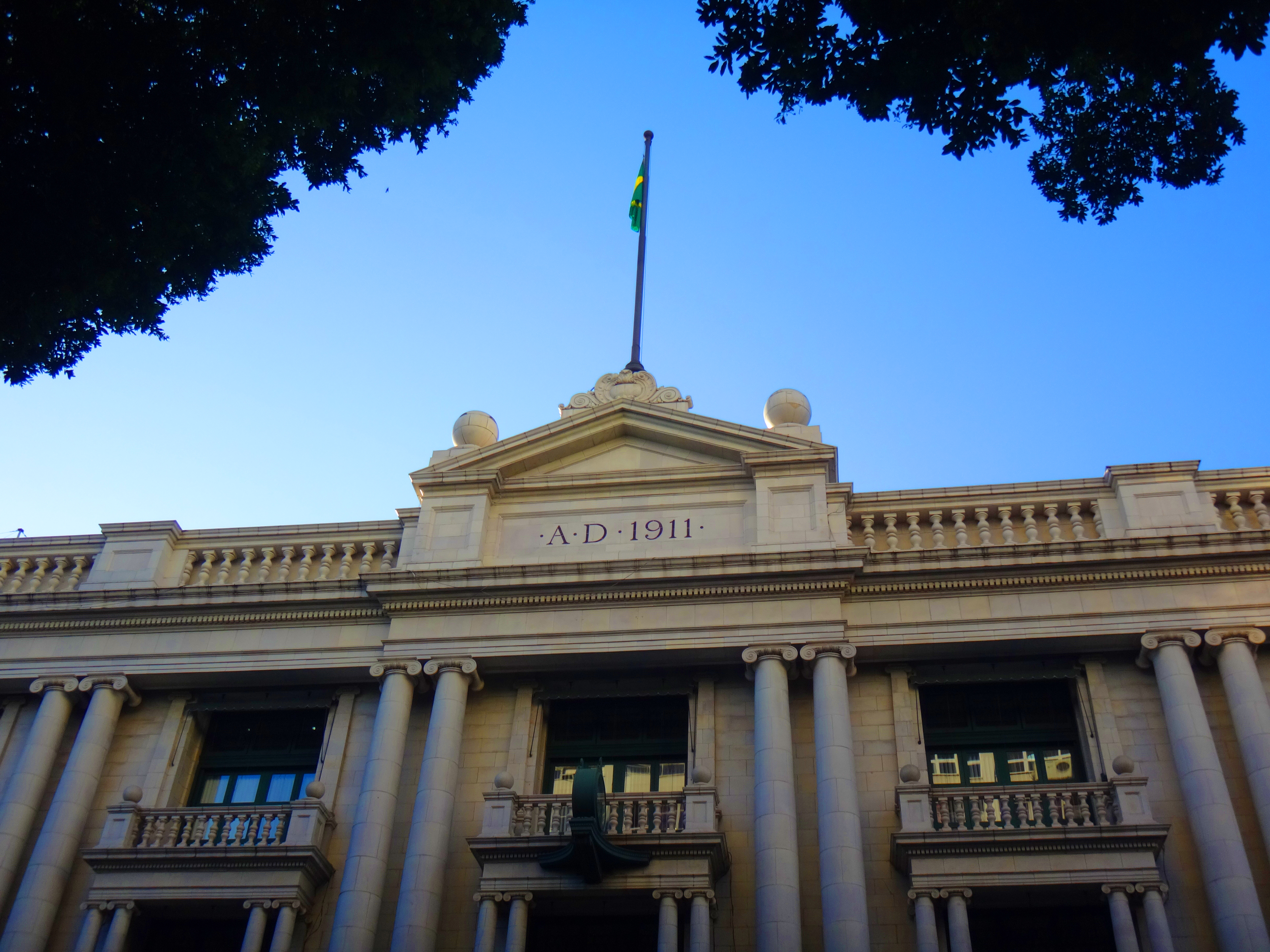 Upper façade of Centro Cultural Light (Light Cultural Centre) in Rio de Janeiro, Brazil